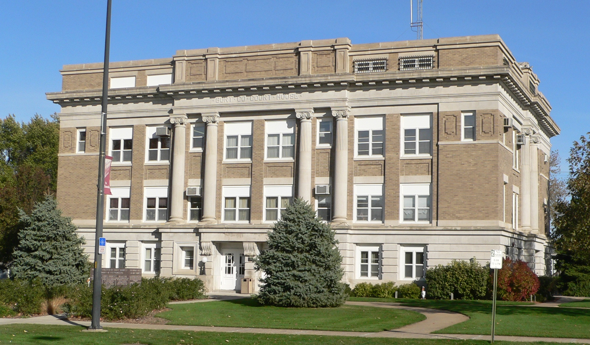 Burt County Courthouse in Tekamah, Nebraska; seen from the southwest. The Beaux-Arts building was constructed in 1916. It is listed in the National Register of Historic Places.